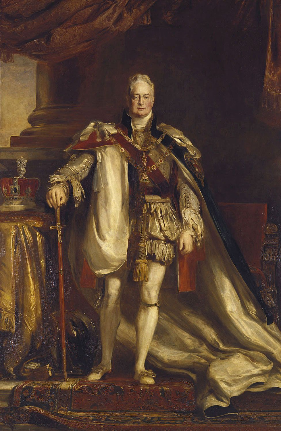 William IV of the United Kingdom